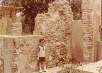 Picture taken in 1977 of my son Tony Santiago Jr., while he was posing in front of the damages caused to the Baños de Coamo by General James H. Wilson's artillery bombardment during the Spanish-American War in 1898.